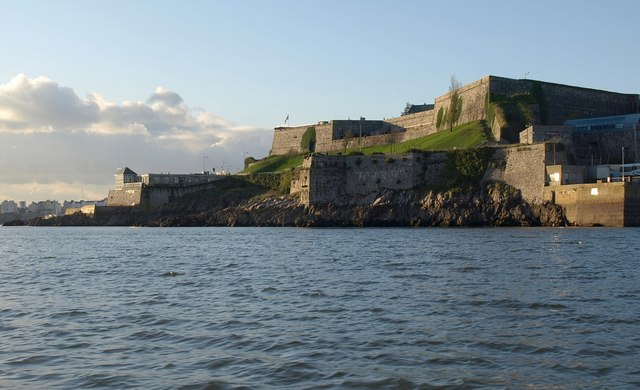 The Citadel, Plymouth A view from the Mount Batten ferry crossing Cattewater. On the right is the C16 Fisher's Nose Artillery Tower, "part of a series of towers built in Plymouth during the reign of Henry VIII" .